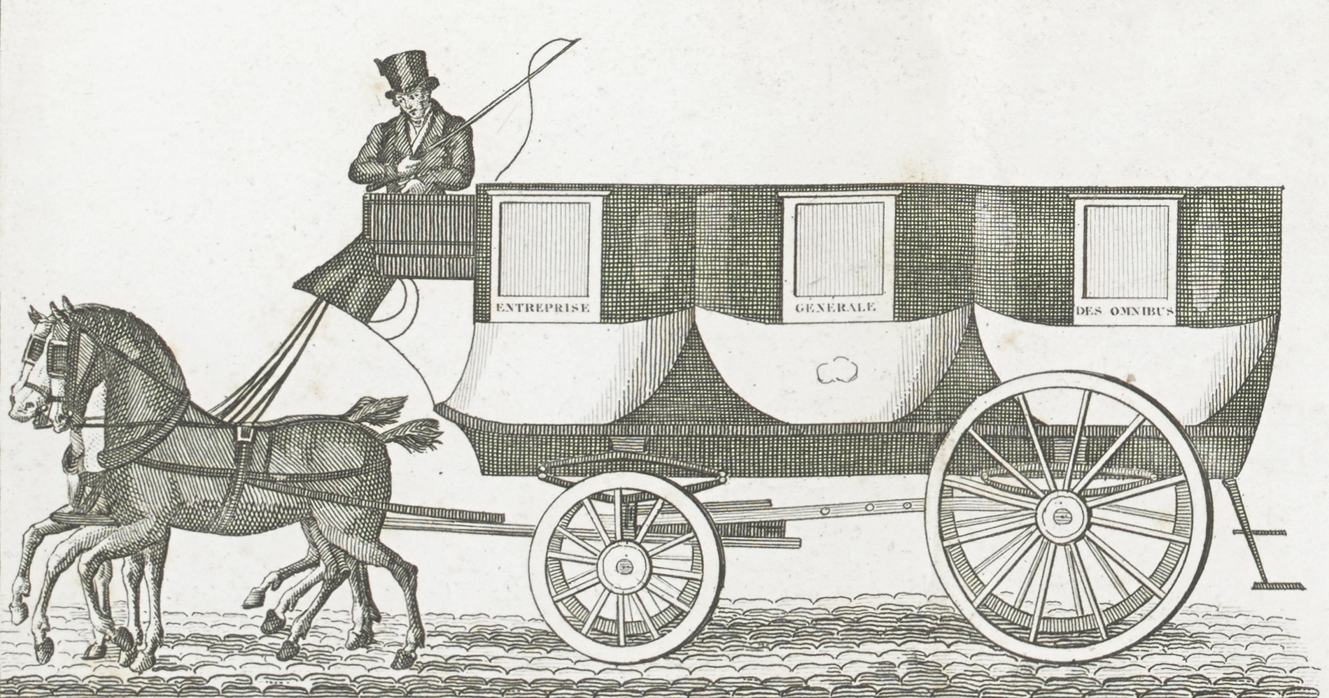 Illustration of the car "Entreprise Générale des Omnibus" on an old map of Paris (Plan de la ville de Paris représentant les nouvelles voitures publiques).